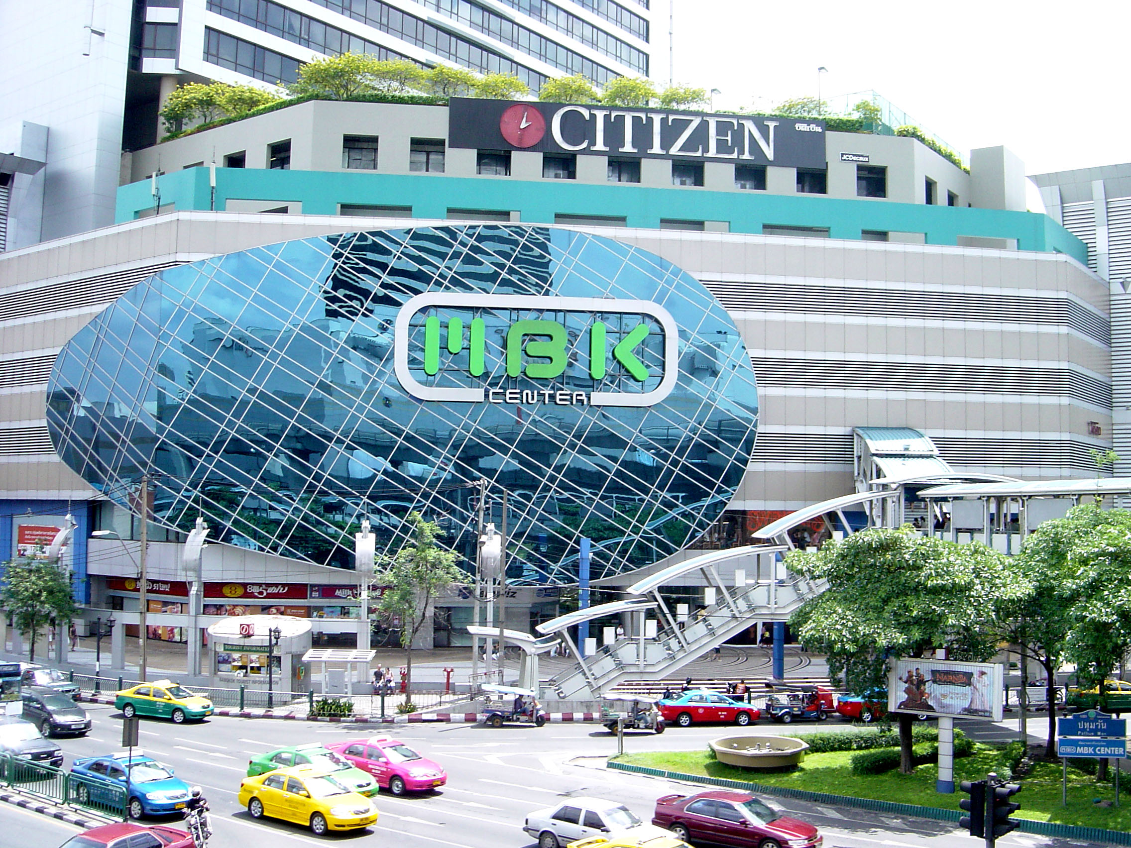 Outside view of MBK (Maboonkrong) Center in Bangkok, Thailand - Außenansicht des MBK (Maboonkrong) Center in Bangkok, Thailand